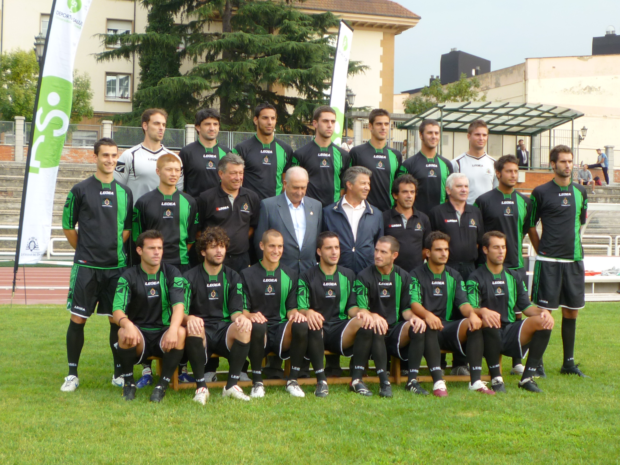 La Asociación Deportiva Universidad de Oviedo con su tercera equipación.